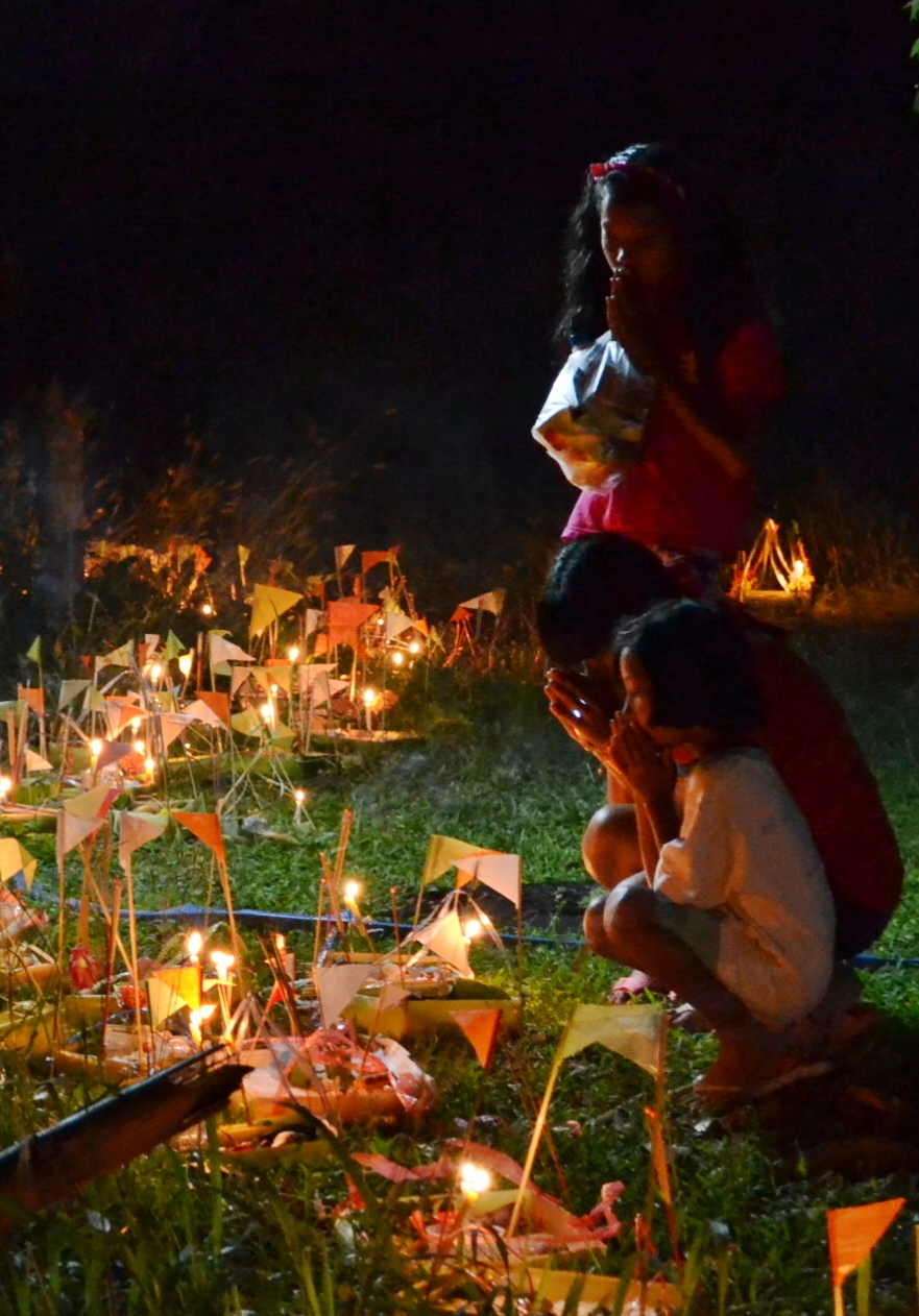 Ngan Bun Klang Ban (งานบุญกลางบ้าน) are Religious festivals of Thailand that have been passed on for a long period of time of the Ban Khung Taphao people. They are organized on Sunday in the first week of February or the Thai 2th lunar month. in Ban Khung TaphaoLocation: Ban Khung Taphao, Khung Taphao subdistrict, Mueang Uttaradit, Uttaradit Province, Thailand.